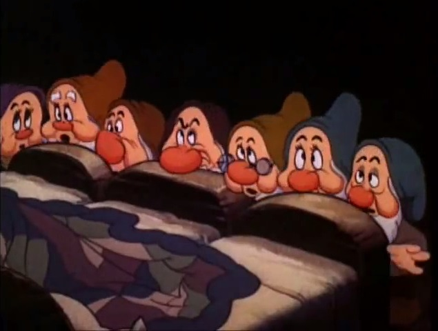 The Seven Dwarfs from the 1958 Reissue trailer for the film Snow White and the Seven Dwarfs. WARNING All the movie trailers released before 1964 are in the Public Domain because they were never separately copyrighted.